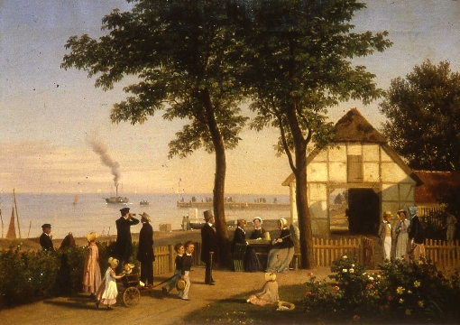 Family is relaxing in the garden at Vedbæk Inn in Vedbæk North of Copenhagen, Denmark. A paddle steamer is dropping off tourists in the background while fishing boats can be seen on the beach.